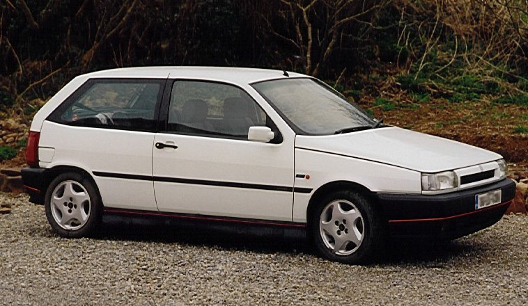 Fiat Tipo